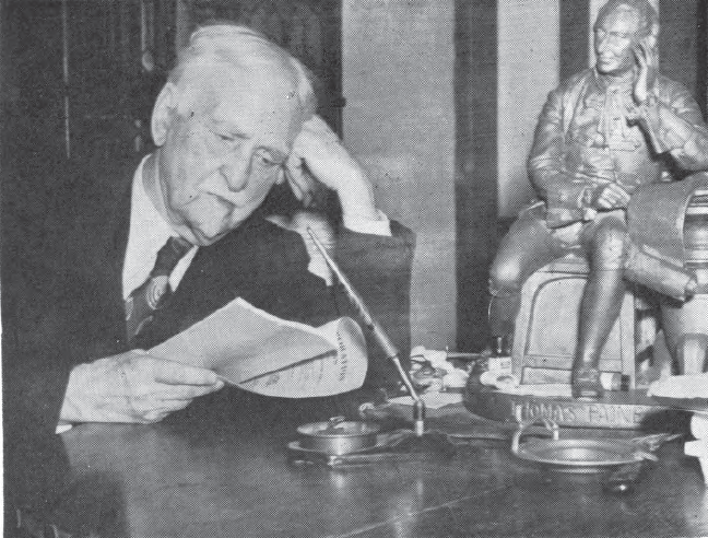 Image by Lesley Kuhn